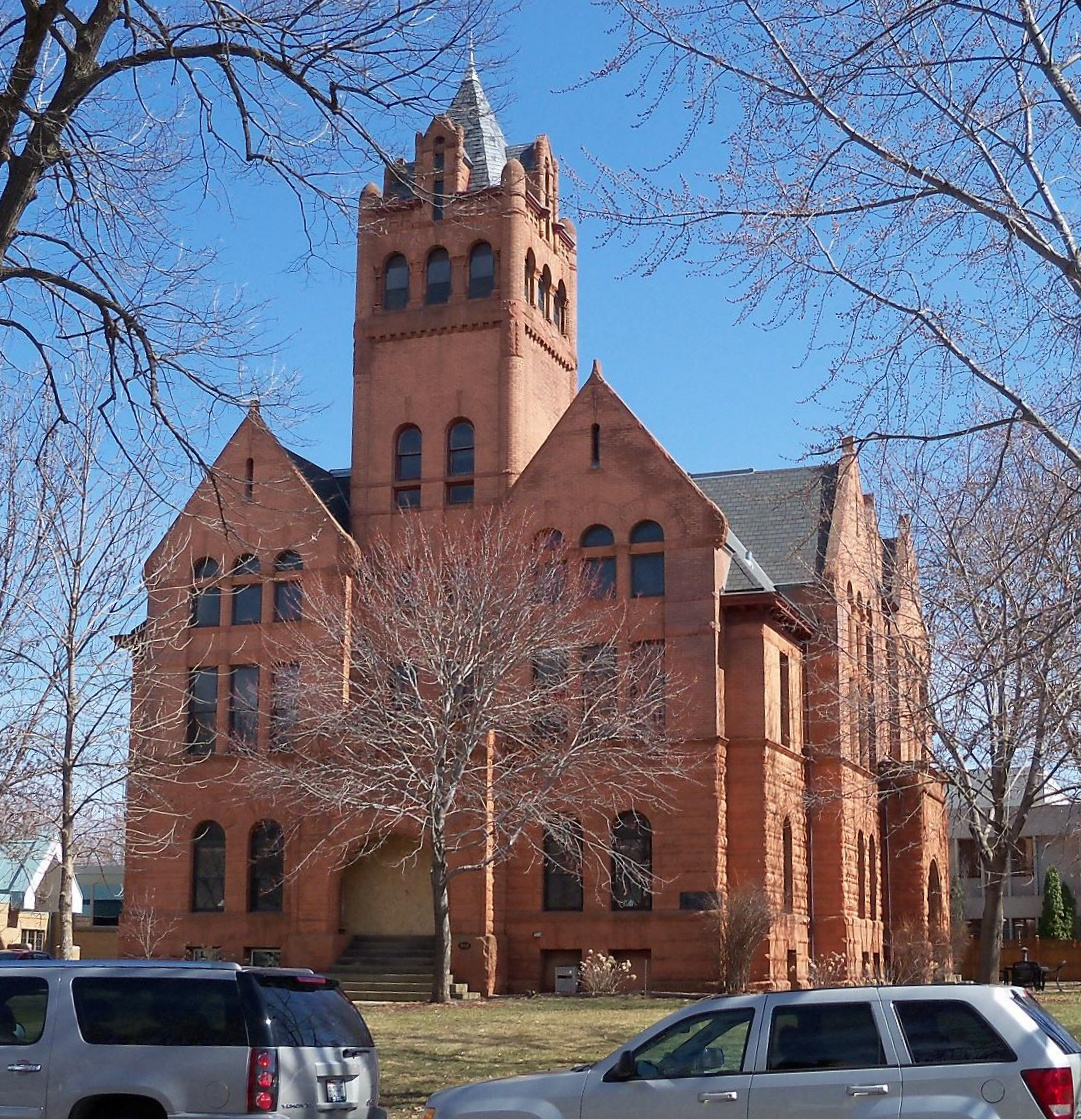 Old St. Croix County Courthouse in Hudson, Wisconsin, USA. (Building is no longer used or owned by the county.)